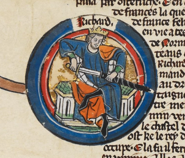 Richard of England